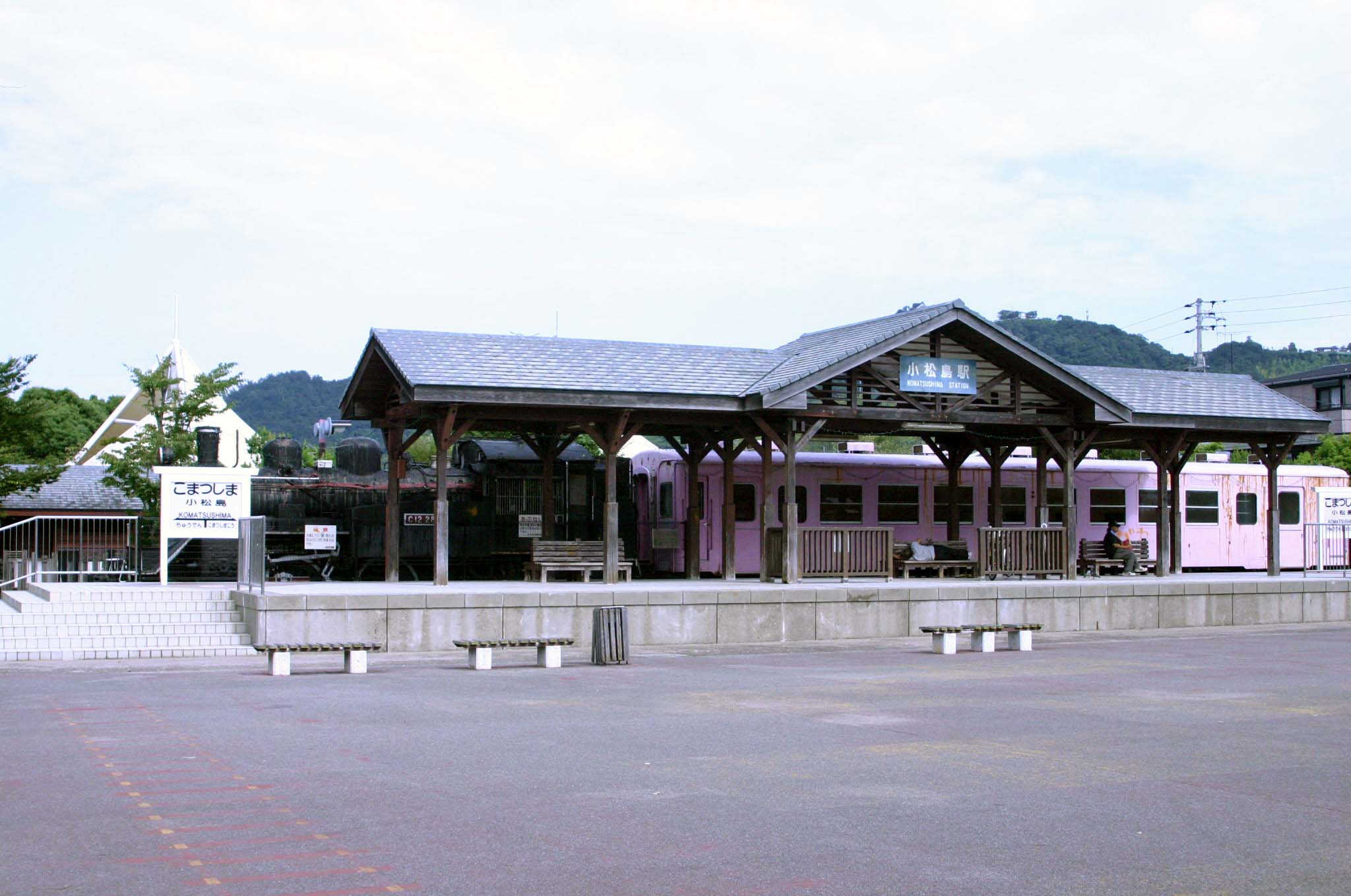 C12 280 SL and Ohafu 50 272 passenger car at Komatsushima SL Square